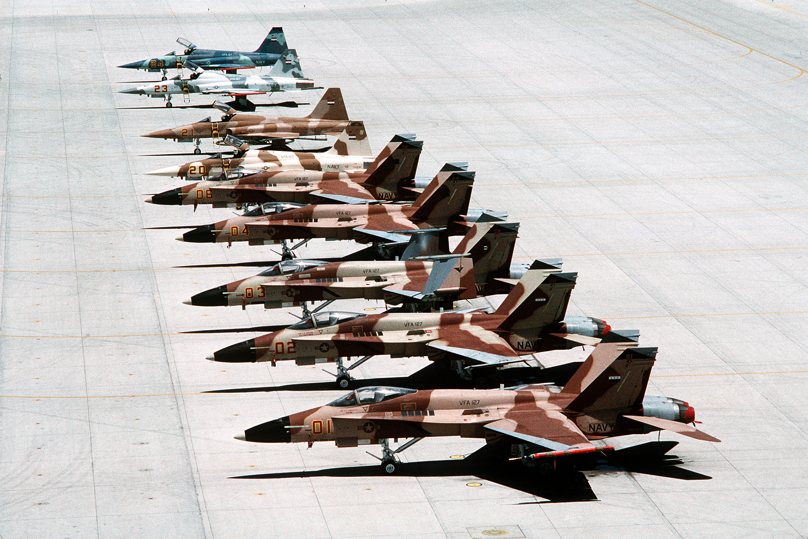 As viewed from the control tower of Naval Air Station Fallon ;nevada (USA), U.S. Navy Northrop F-5N Tiger II and McDonnell Douglas F/A-18A Hornet agressor aircraft of Strike Fighter Squadron VFA-127 are shown lined up on the flight line displaying a variety of camouflaged schemes.